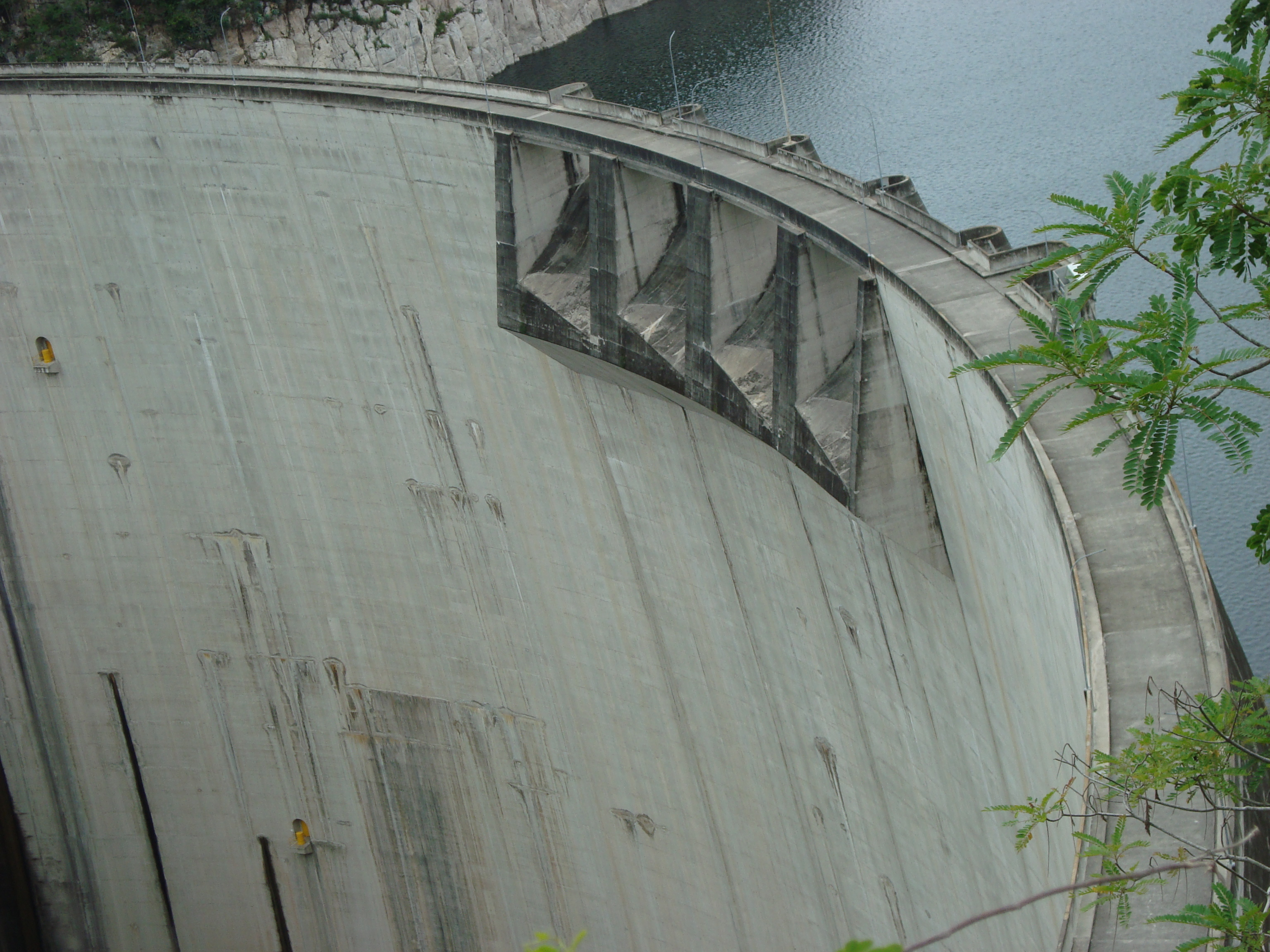 Overlooking El Cajon Dam